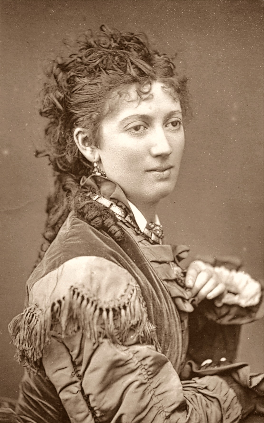 Jessie Vokes 1851-1884, Vokes Family, English Actress.